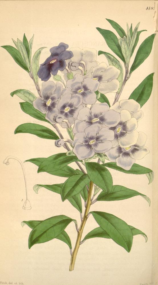 Illustration of Brunfelsia brasiliensis (as Franciscea acuminata)